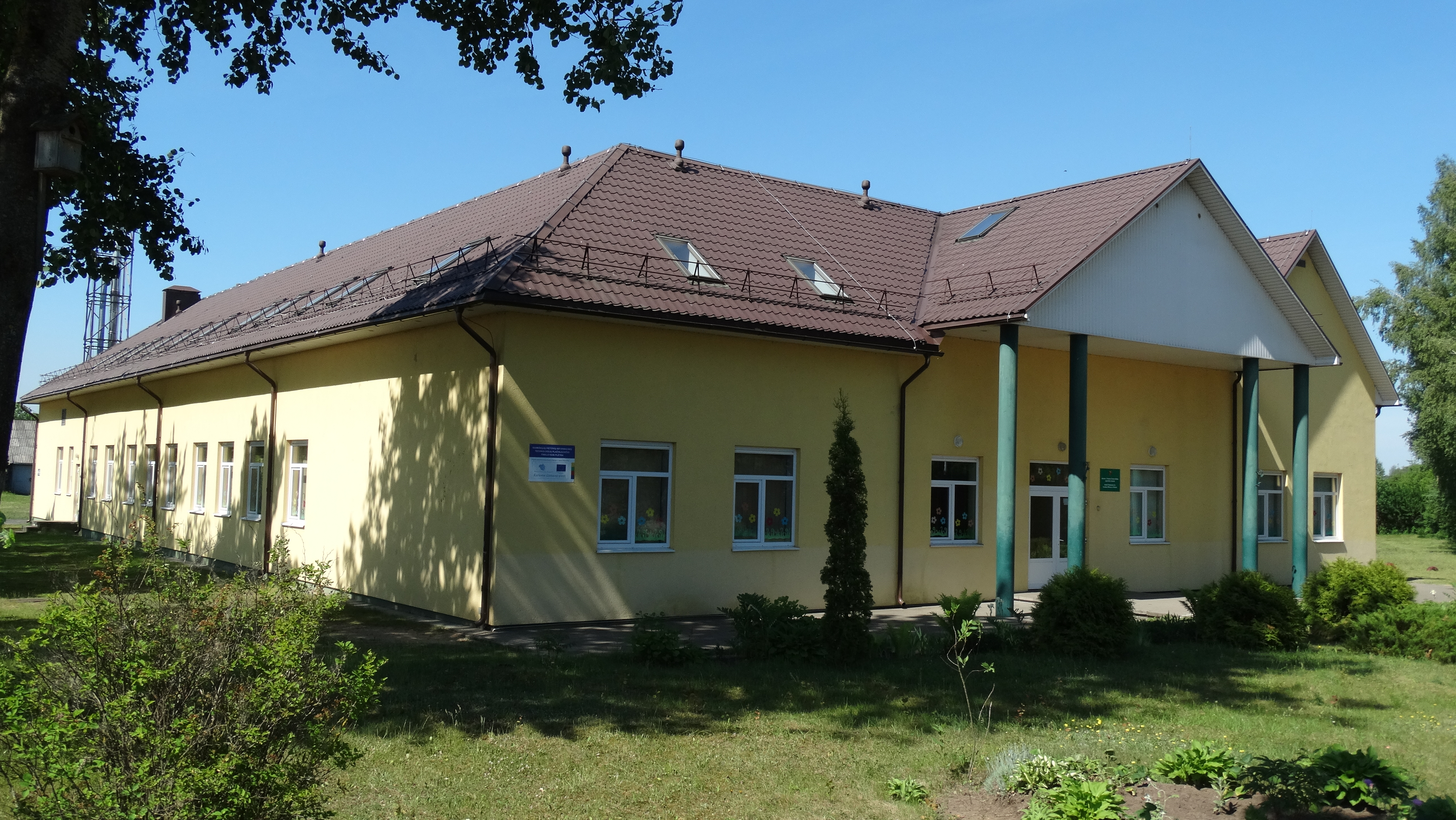 Czesław Miłosz Basic School in Pakenė, Vilnius District, Lithuania